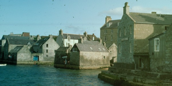 Buildings near the harbour in Lerwick, Shetland